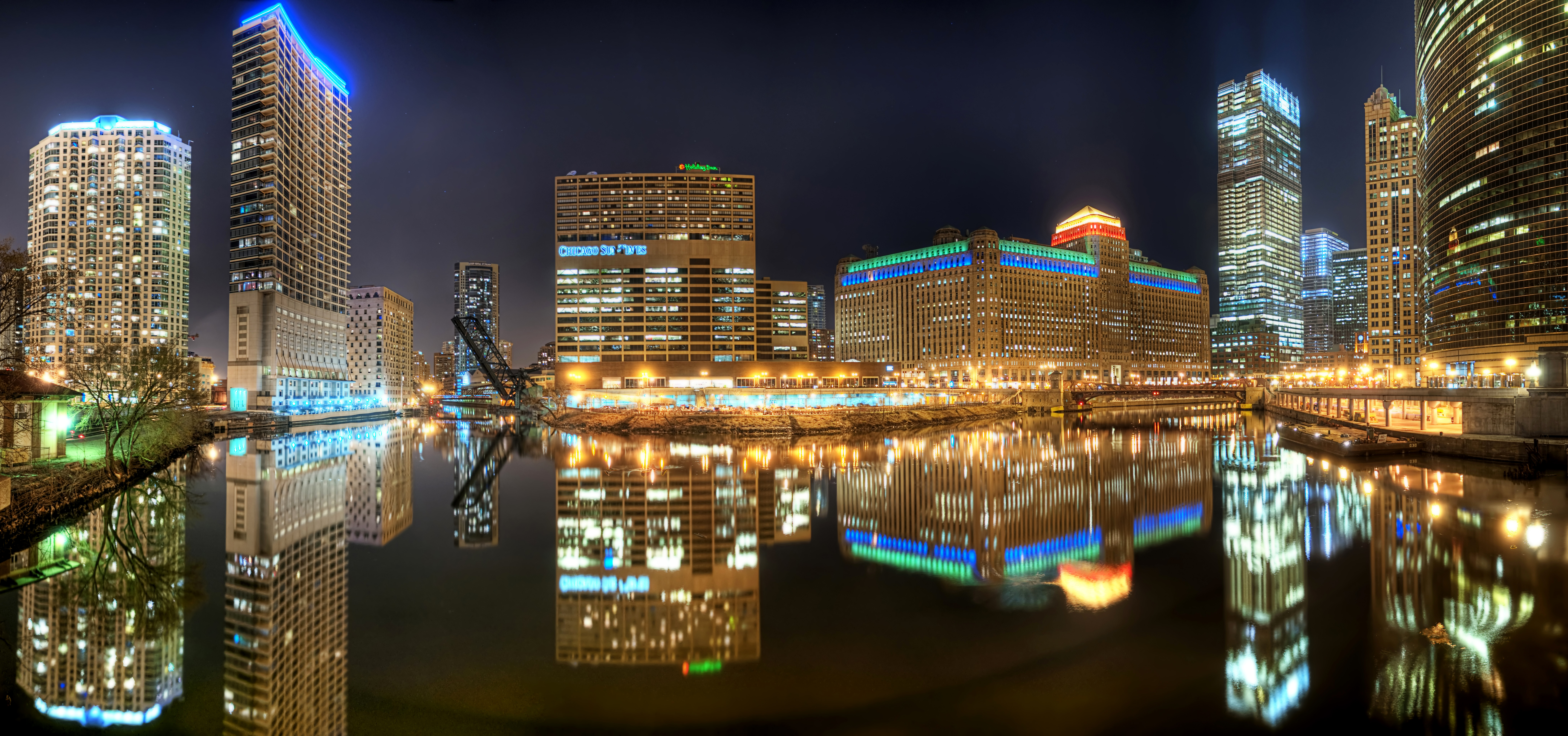 The Chicago River as seen from the Lake Street Bridge.